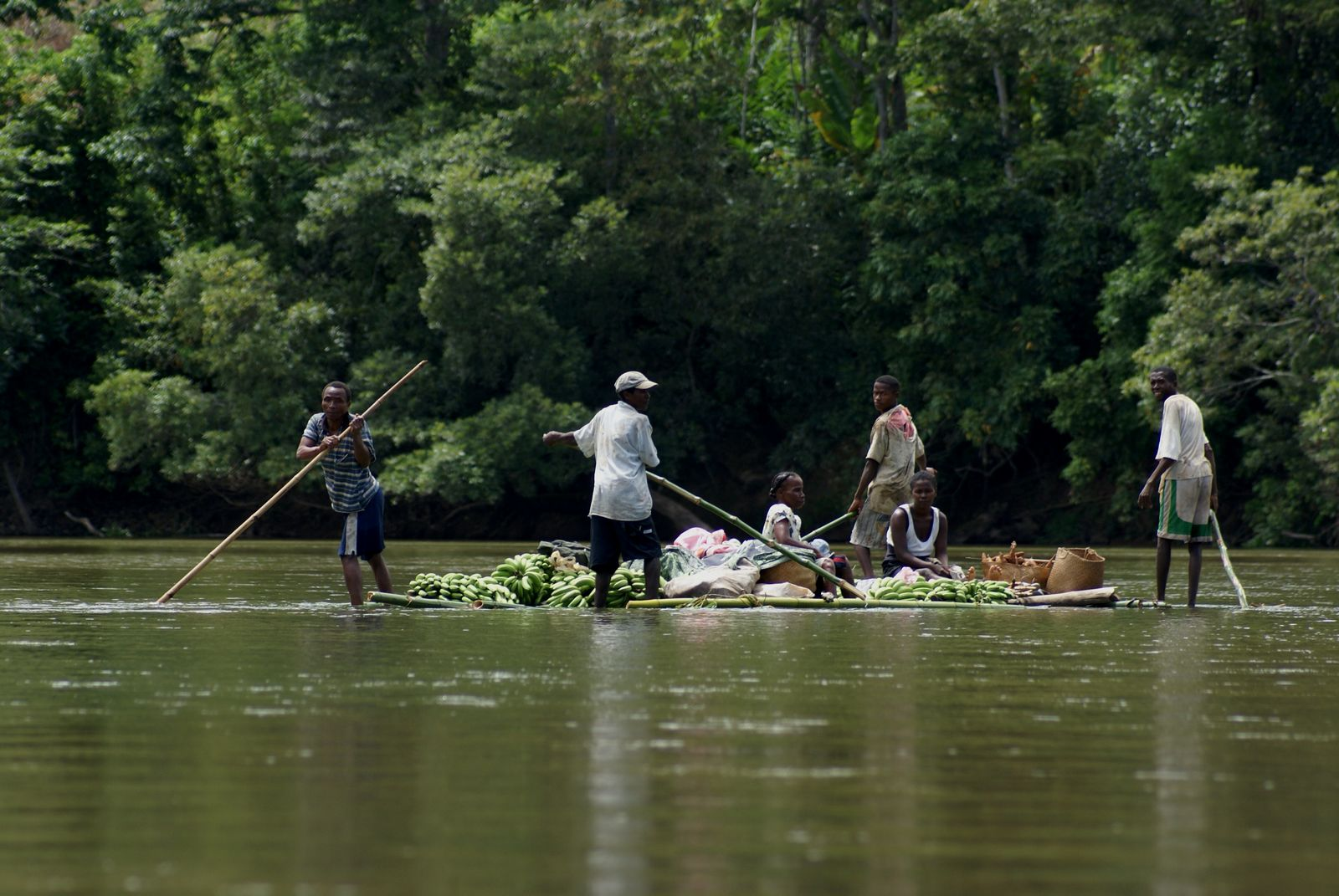 Malagasy people - Lokoho river - SAVA Area - Madagascar